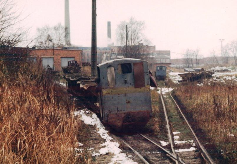 Brickyard Witaszyce (Poland) - 1996.